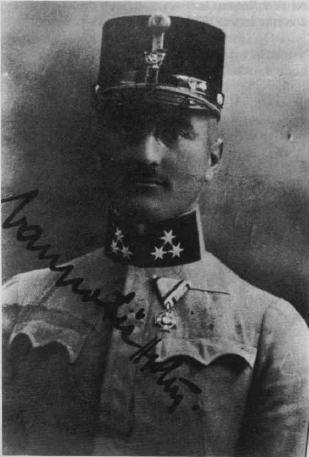 Edvard Vaupotič (1881-1953), Slovene officer